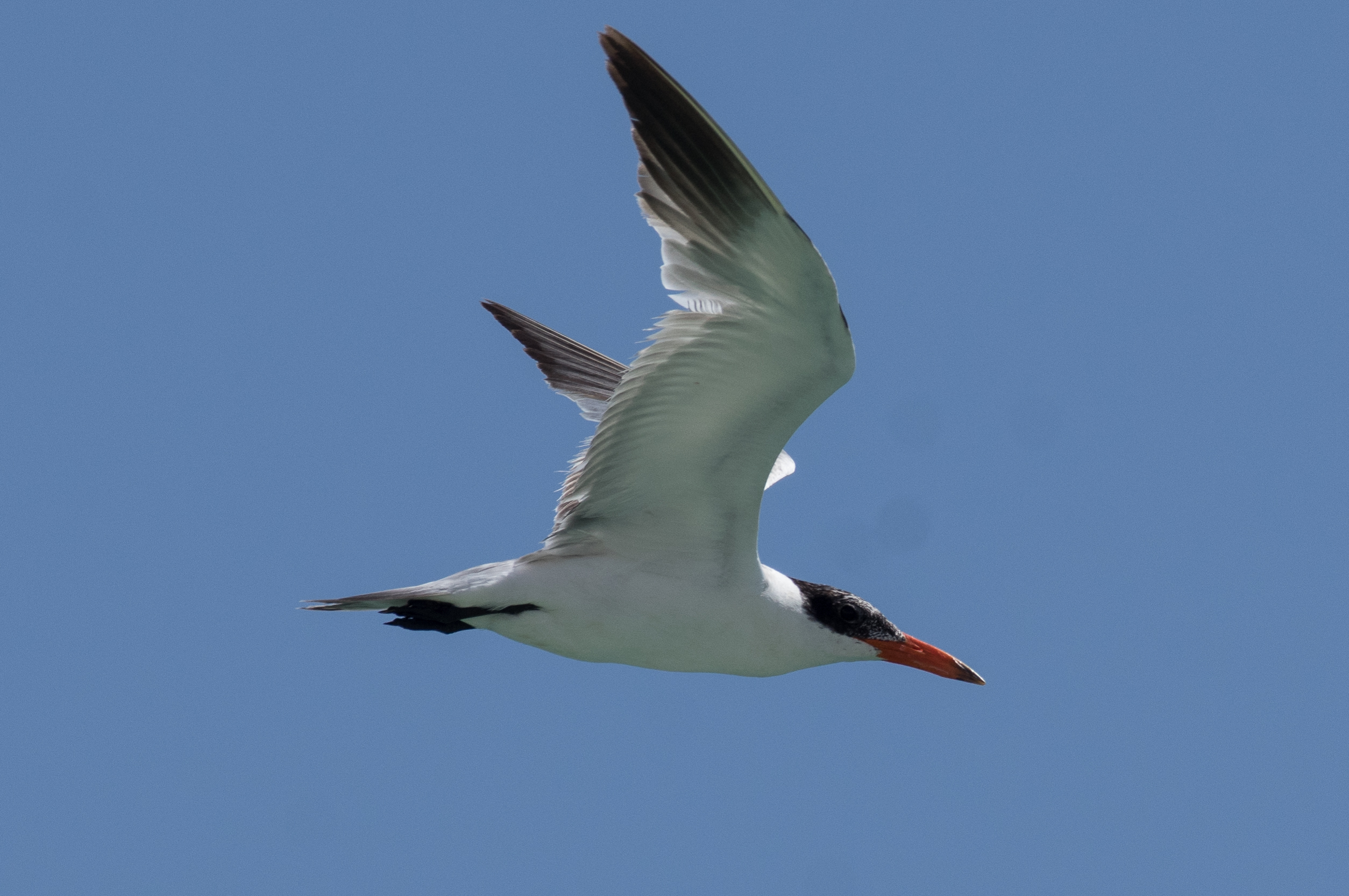 Caspian tern (Hydroprogne caspia) in flight, Salalah, Oman